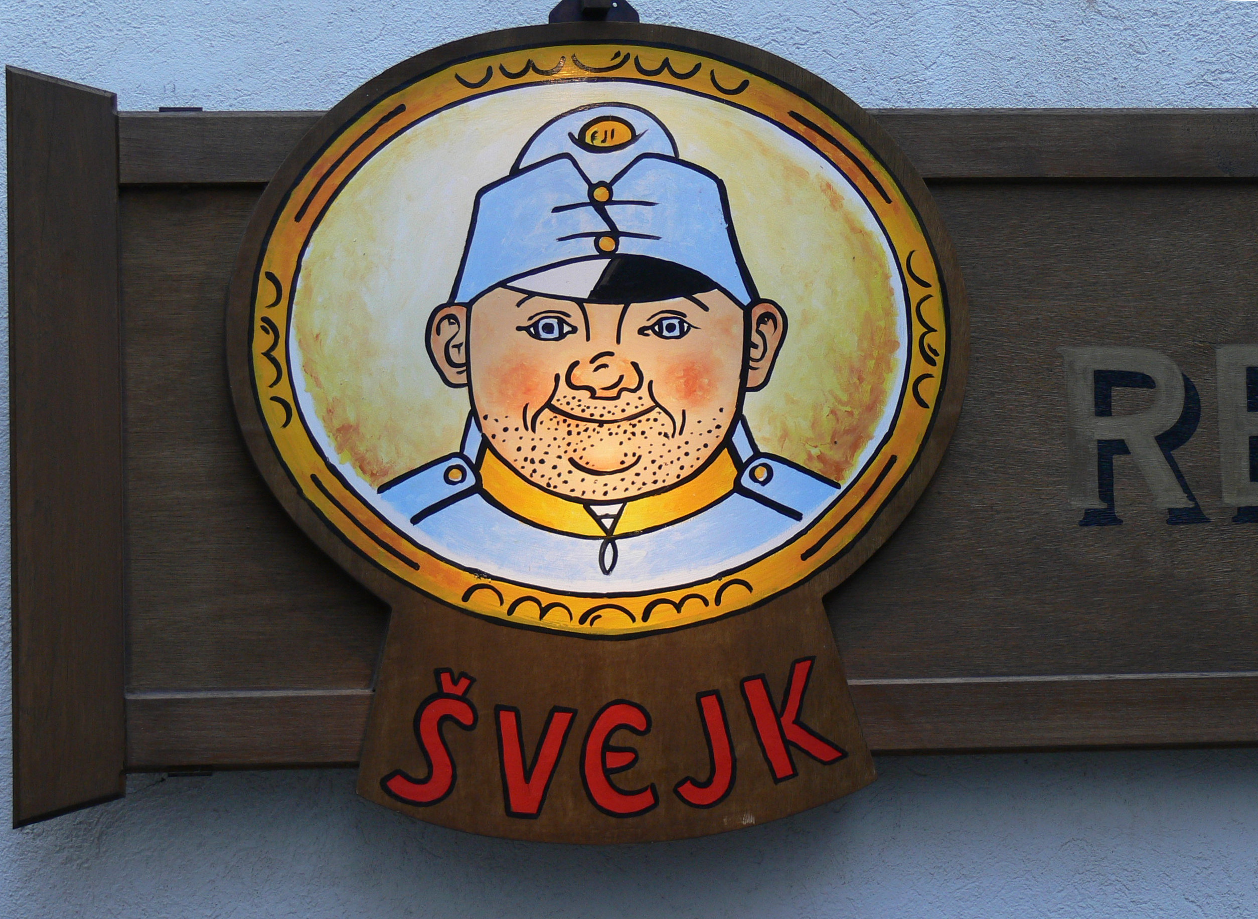 Český Krumlov . Restaurant sign "Švejk"